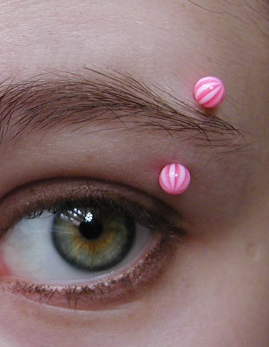 Picture of a left eyebrow piercing with a curved barbell. Subject is China Beritiech. Uploaded for the eyebrow piercing article.